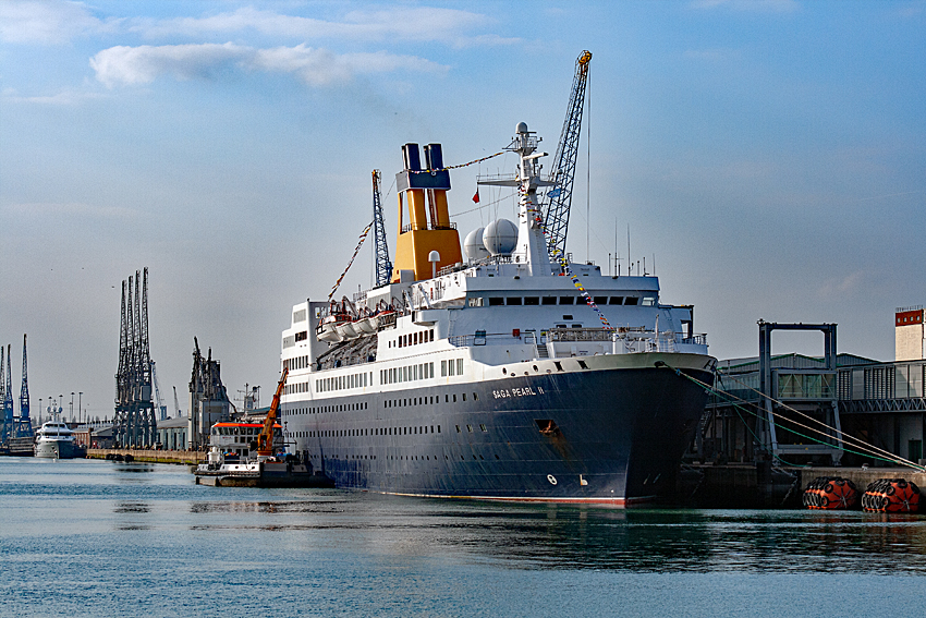 Saga Pearl II at Southampton with yellow funnel. Other names: Astor, Arkona, Astoria, Quest for Adventure Pearl II Information about the vessel may be found at IMO 8000214.A ship can change name and flag state through time, but the IMO number remains the same through the hull's entire lifetime. As a result, it can be useful to identify a ship by using the IMO number.